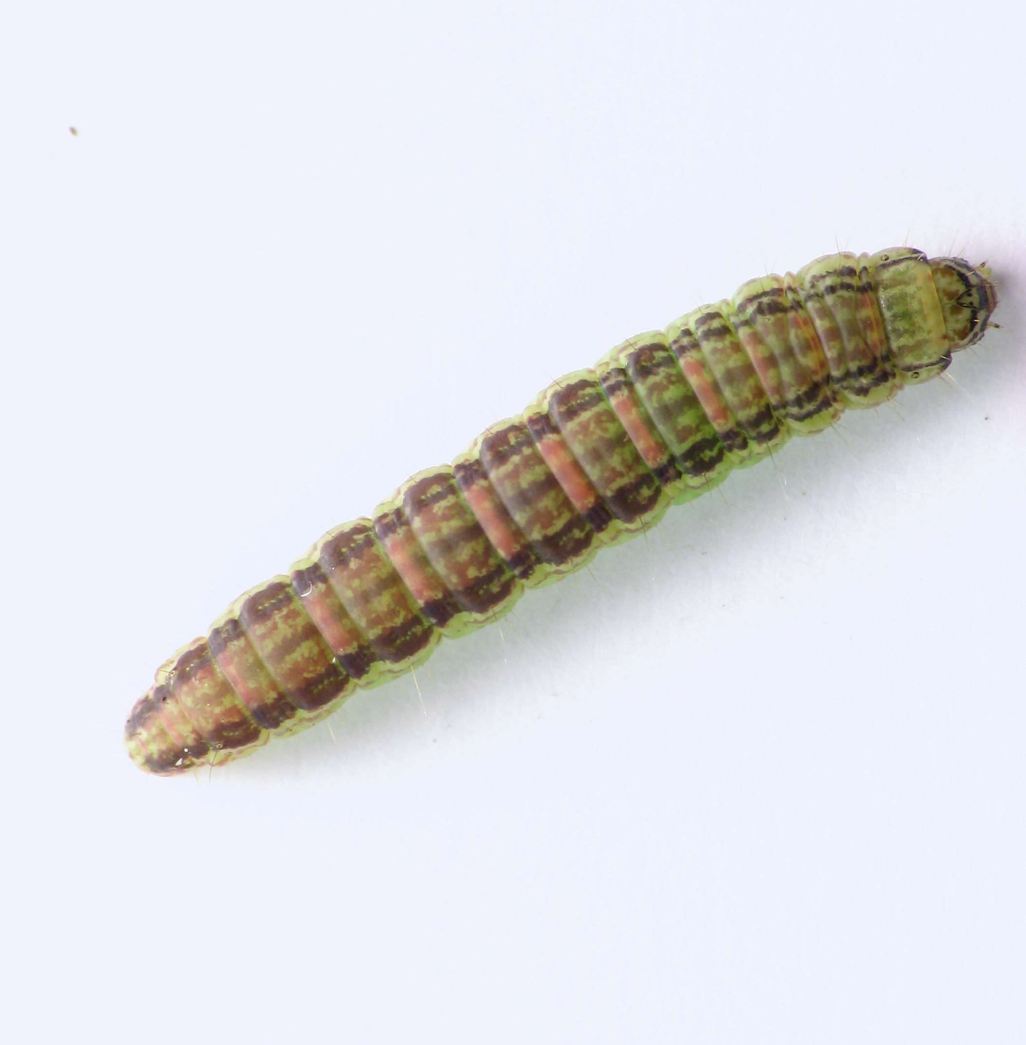 Sciota uvinella, larva. (Sweetgum Leafroller - Hodges#5802). Size: 8-10 mm. Found on sweetgum. Rancocas Nature Center NJAS, Burlington County, New Jersey, USA. September 22, 2010